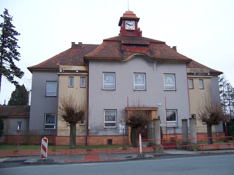 School in Ostresany, Czech Republic